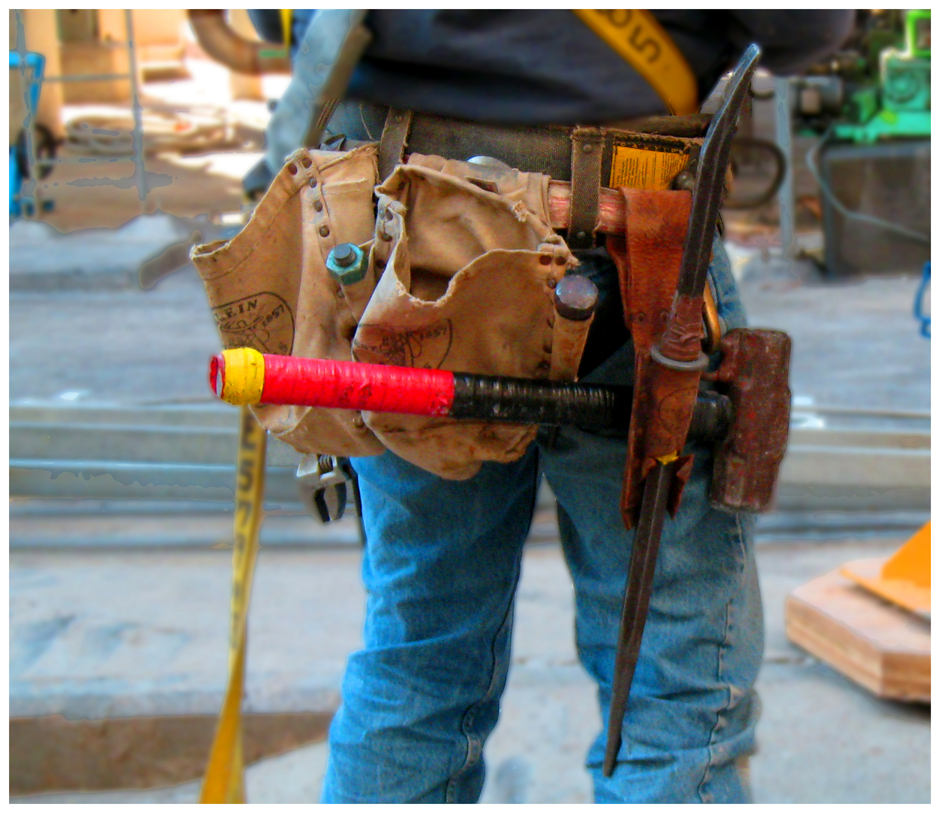 An Iron Worker close to Baytown, Texas prepares to climb the iron structure